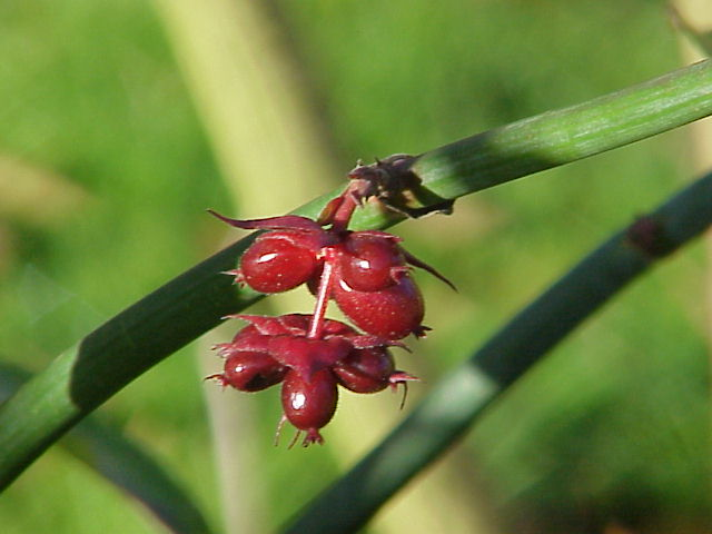 Species: Leycesteria formosa Family: Caprifoliaceae Image No. 2